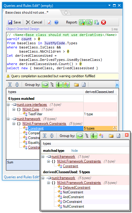 CQLinq Editor Overview